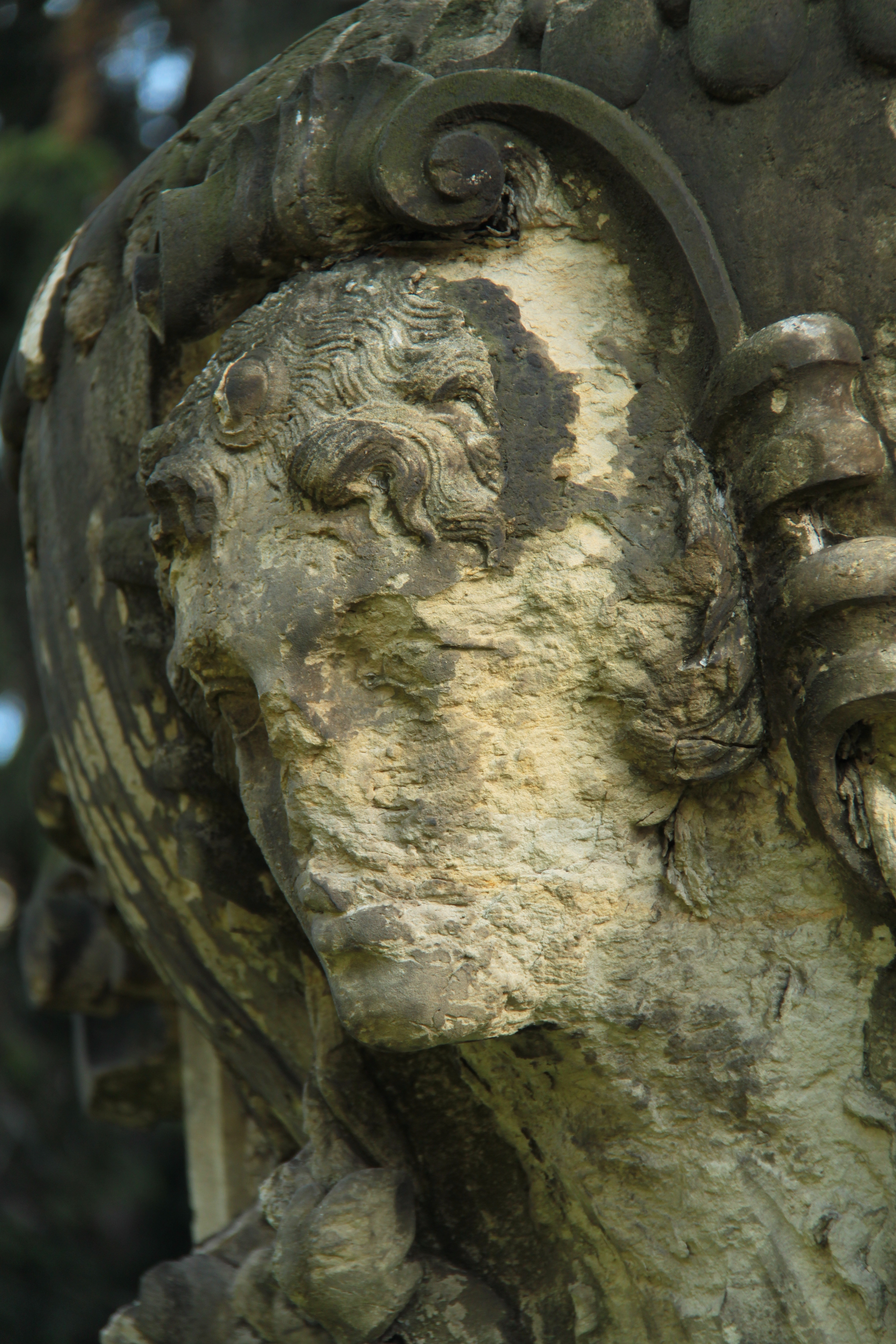 Religious medieval sculpture, degraded by the acidification (of air and rains) due to the pollution of the XIXth and XXth century induced by the generalization of fossil fuels, then by the automobile pollution and certain fertilizers, and blackened by the black of carbon . This sculpture is located in Dresden, at the corner of Bautzner Straße and Eck Glacisstraße